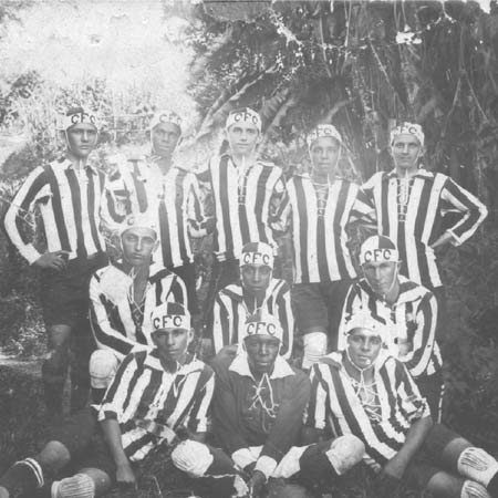 Caxias Futebol Clube team from Joinville/SC, state champions of 1929.